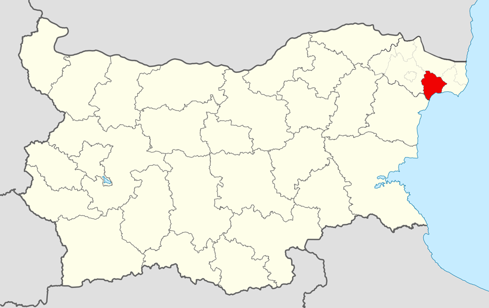 Location map of Balchik Municipality within Bulgaria and Dobrich Province. Equirectangular projection, N/S stretching 130 %. Geographic limits of the map: N: 44.4° N S: 41.1° N W: 22.1° E E: 28.9° E